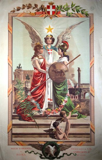 Allegoric print made on 1895 to celebrate the 25th of Roma capital of Italy